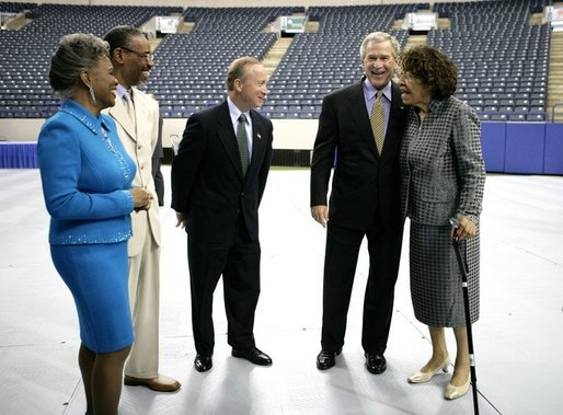 President George W. Bush is joined backstage by event participants before delivering remarks at the Indiana Black Expo Corporate Luncheon in Indianapolis, Ind., Thursday, July 14, 2005. Pictured with the President, from left are: Indiana Black Expo President Joyce Rogers, Chairman Arvis Dawson, Indiana Governor Mitch Daniels, and Congresswoman Julia Carson. White House photo by Eric Drape